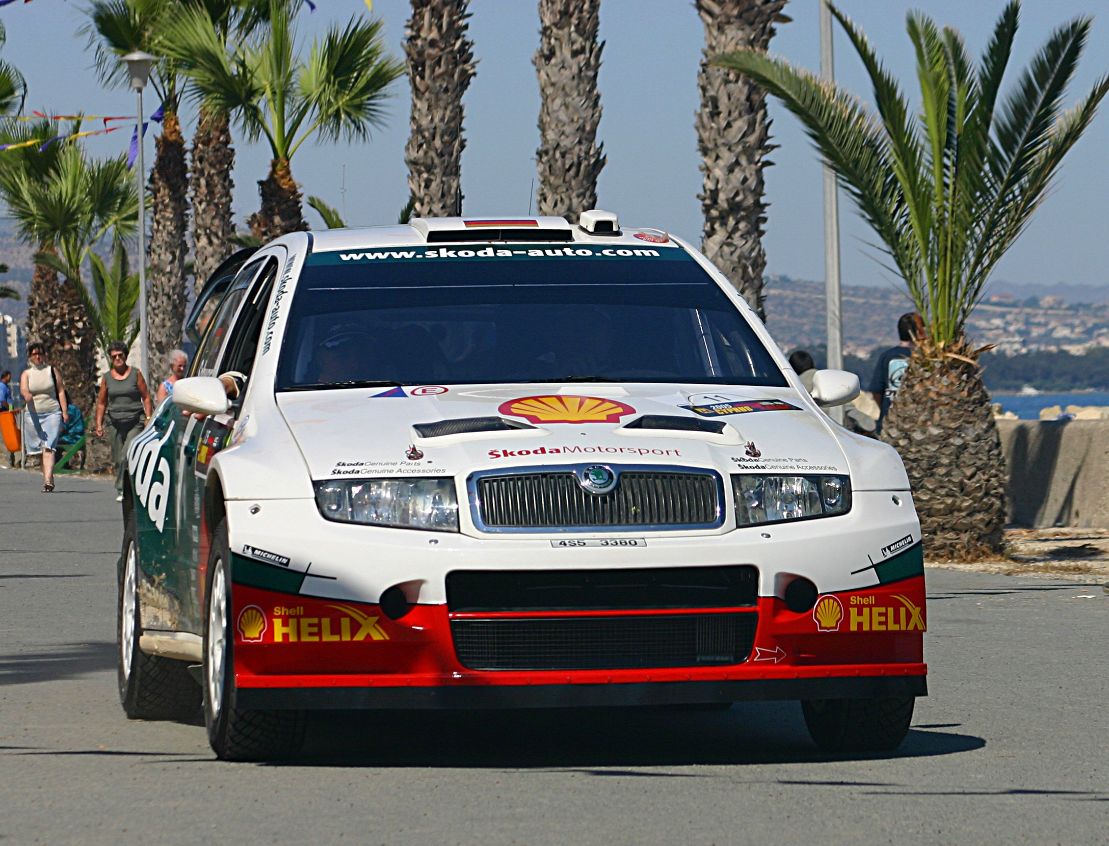 Škoda Fabia WRC (Janne Tuohino/Mikko Markkula) in Limassol, Cyprus, Greek Cypriot Rep. - Cyprus Rally 2005